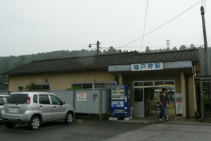 Umedoi Station